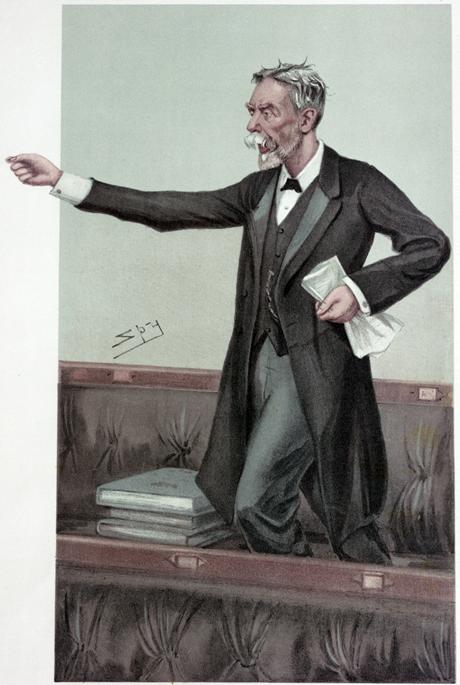 Statesmen No.748: Caricature of Mr JG Swift MacNeill KC MP. Caption reads: "South Donegal"